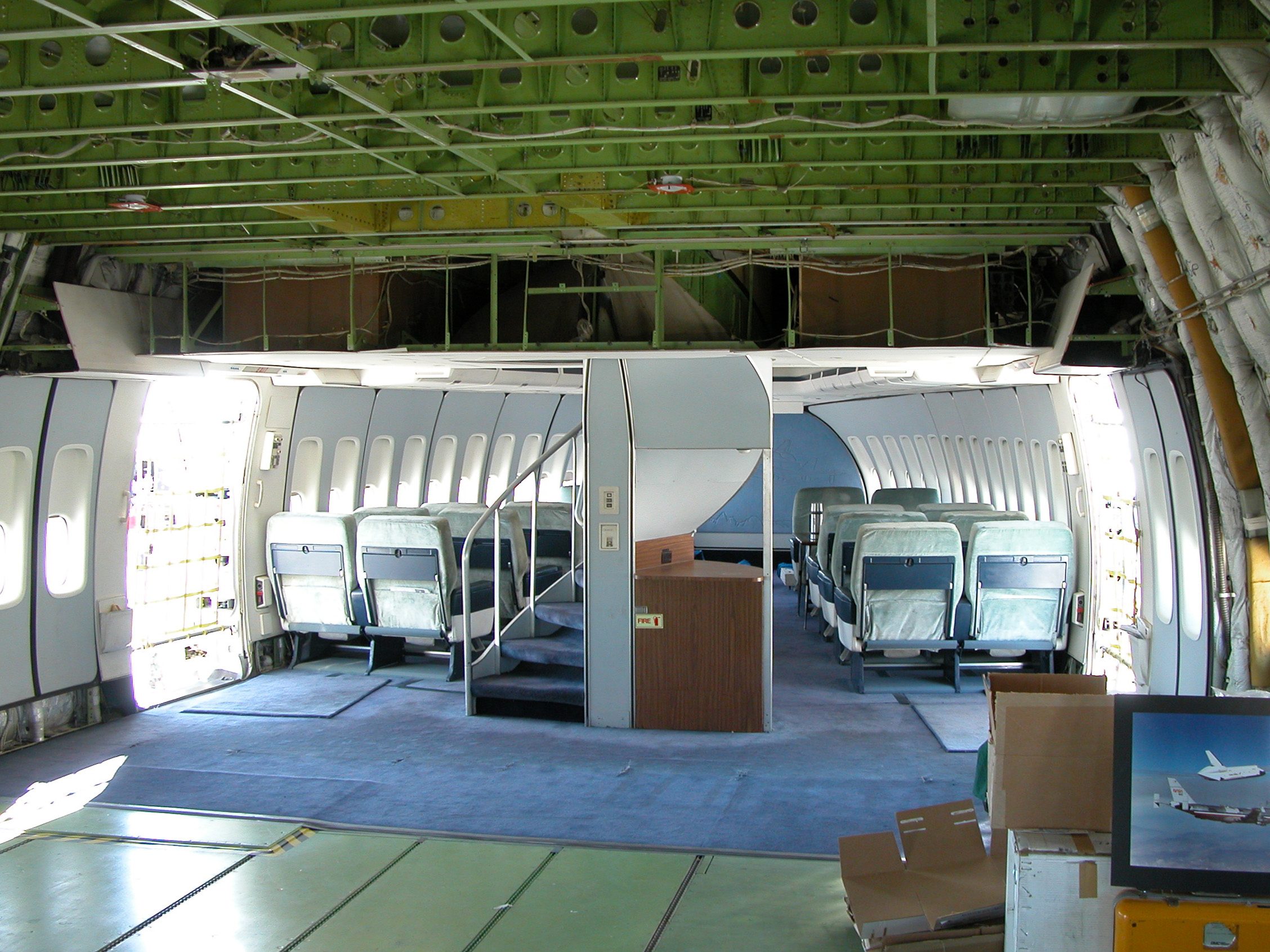 Passenger section of NASA's 747 Shuttle Carrier Aircraft N905NA.